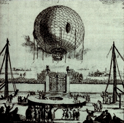 The first flight on a balloon in Italy, by count Paolo Andreani and the Gerli brothers (Agostino and Carlo) near Milan, February 25, 1784.